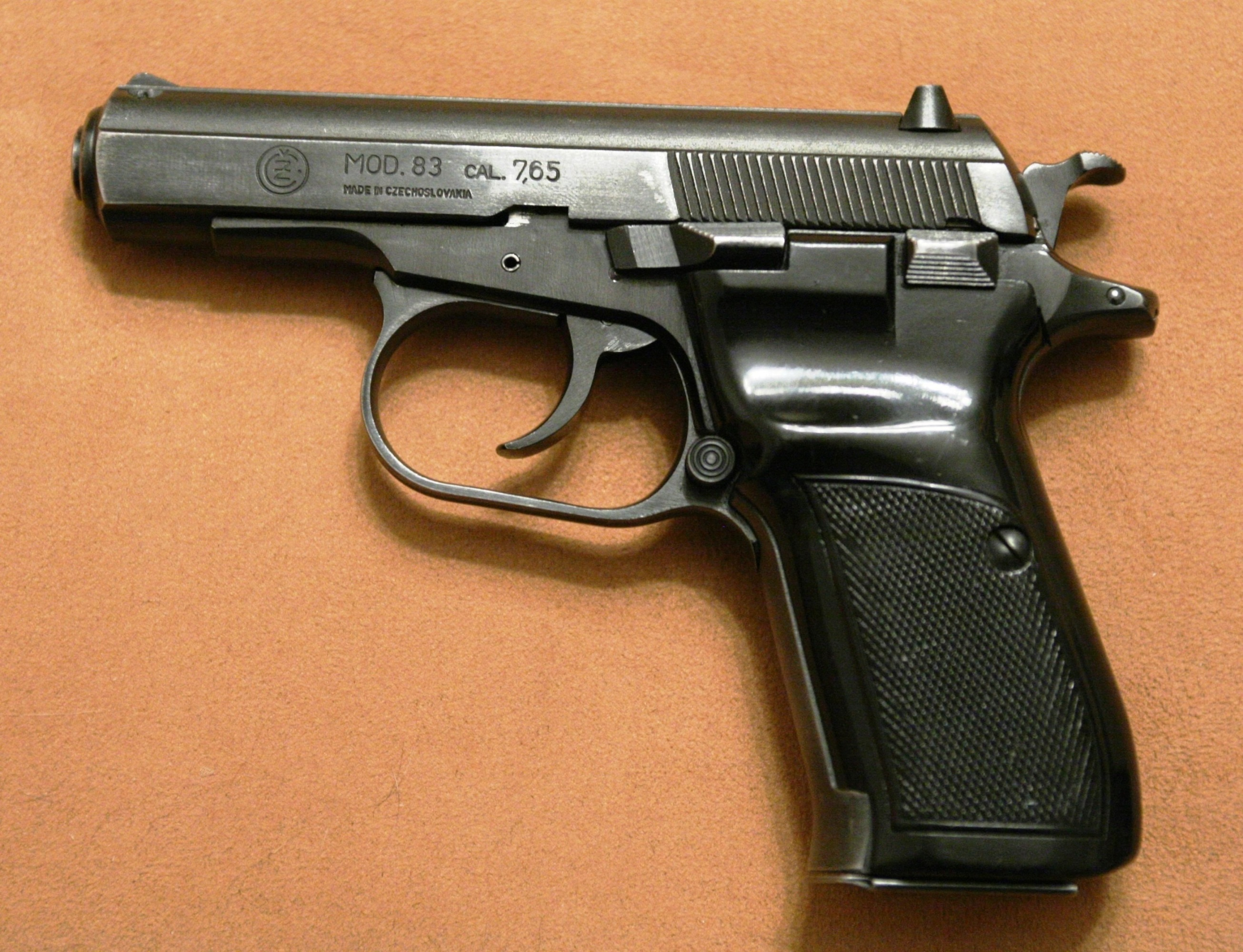 Czechoslovak CZ-83 pistol in 7,65 mm caliber (.32 Auto).